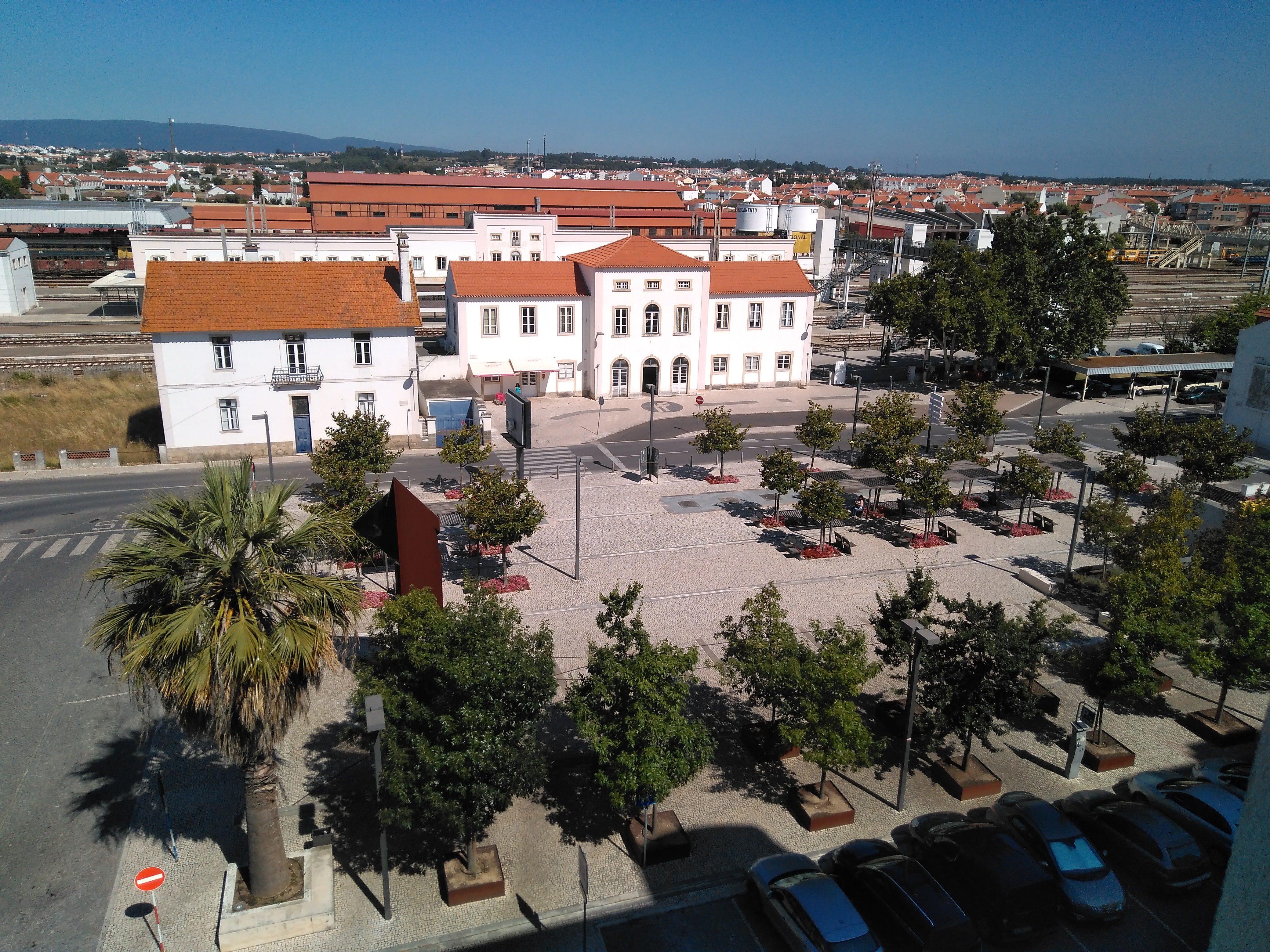 Republic Square and the train station, seen from Hotel Gameiro; Entroncamento, Portugal